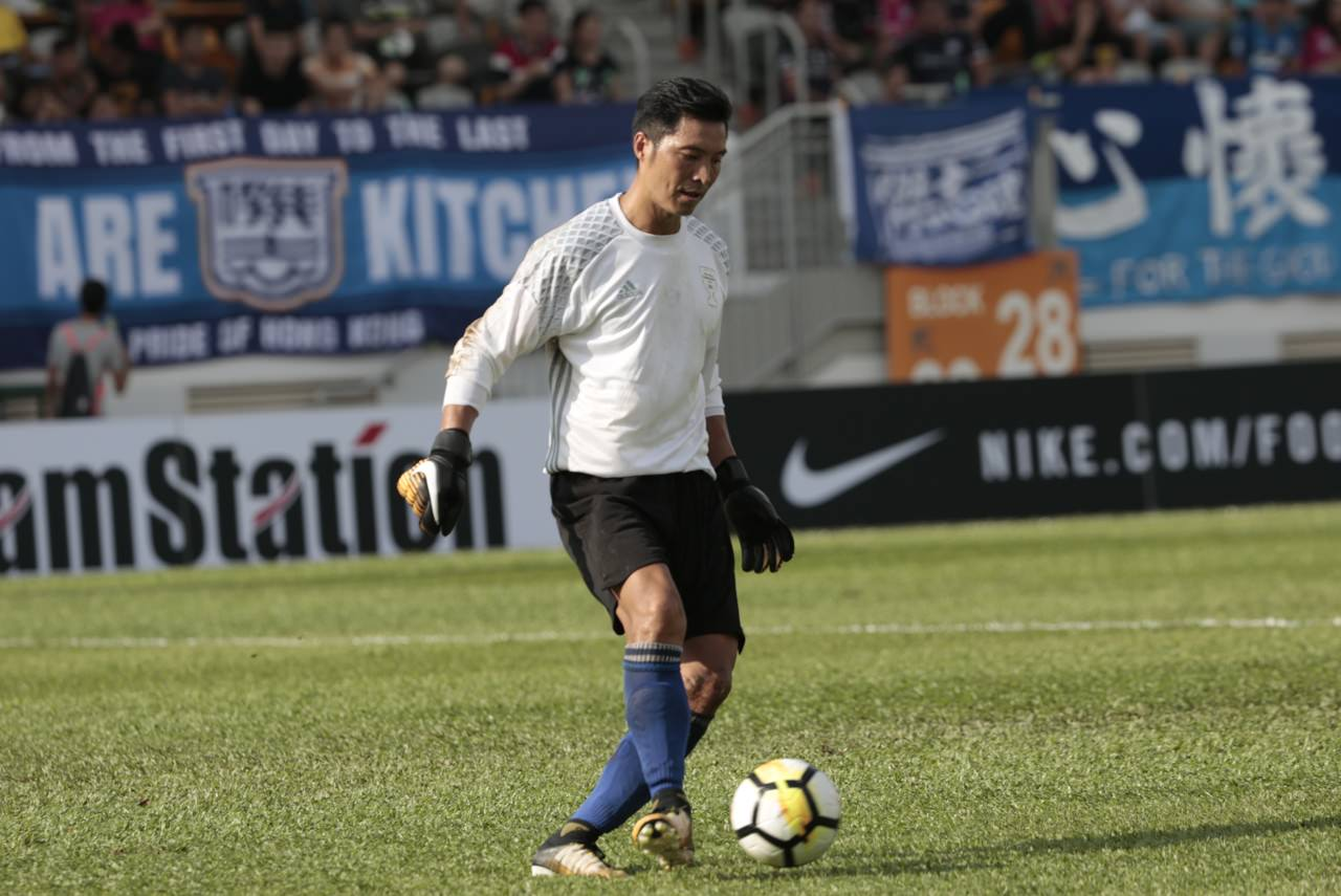 2017 HK Community Cup_Exhibition Game_Fan Chun Yip